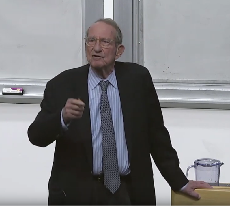 Youtube description: A multi-faceted approach to reducing climate damage: A conceptual model that integrates four strategies to address climate change It is very unlikely that climate damages can be reduced to an acceptable level by the end of the century relying only on emissions reduction. A conceptual model is presented that includes four climate change control strategies: emissions reduction, carbon dioxide (CO2) removal from the atmosphere, adaptation to climate change, and geoengineering to optimally reduce climate damage subject to a control budget constraint. Speaker Biography: John Deutch is an Institute Professor at the Massachusetts Institute of Technology. Mr. Deutch has been a member of the MIT faculty since 1970, and has served as Chairman of the Department of Chemistry, Dean of Science, and Provost. Mr. Deutch has published over 160 technical publications in physical chemistry, as well as numerous publications on technology, energy, international security, and public policy issues. He served as Director of Central Intelligence from May 1995-December 1996. From 1994-1995, he served as Deputy Secretary of Defense and served as Undersecretary of Defense for Acquisition and Technology from 1993-1994. He has also served as Director of Energy Research (1977-1979), Acting Assistant Secretary for Energy Technology (1979), and Undersecretary (1979-80) in the United States Department of Energy. He is a member of the Aspen Strategy Group.